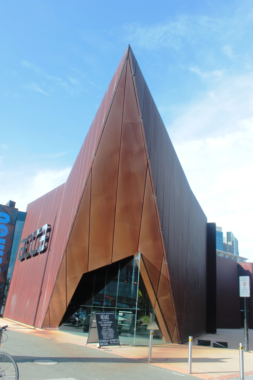 Australian Center of Contemporary Art (ACCA)- Entrance 2